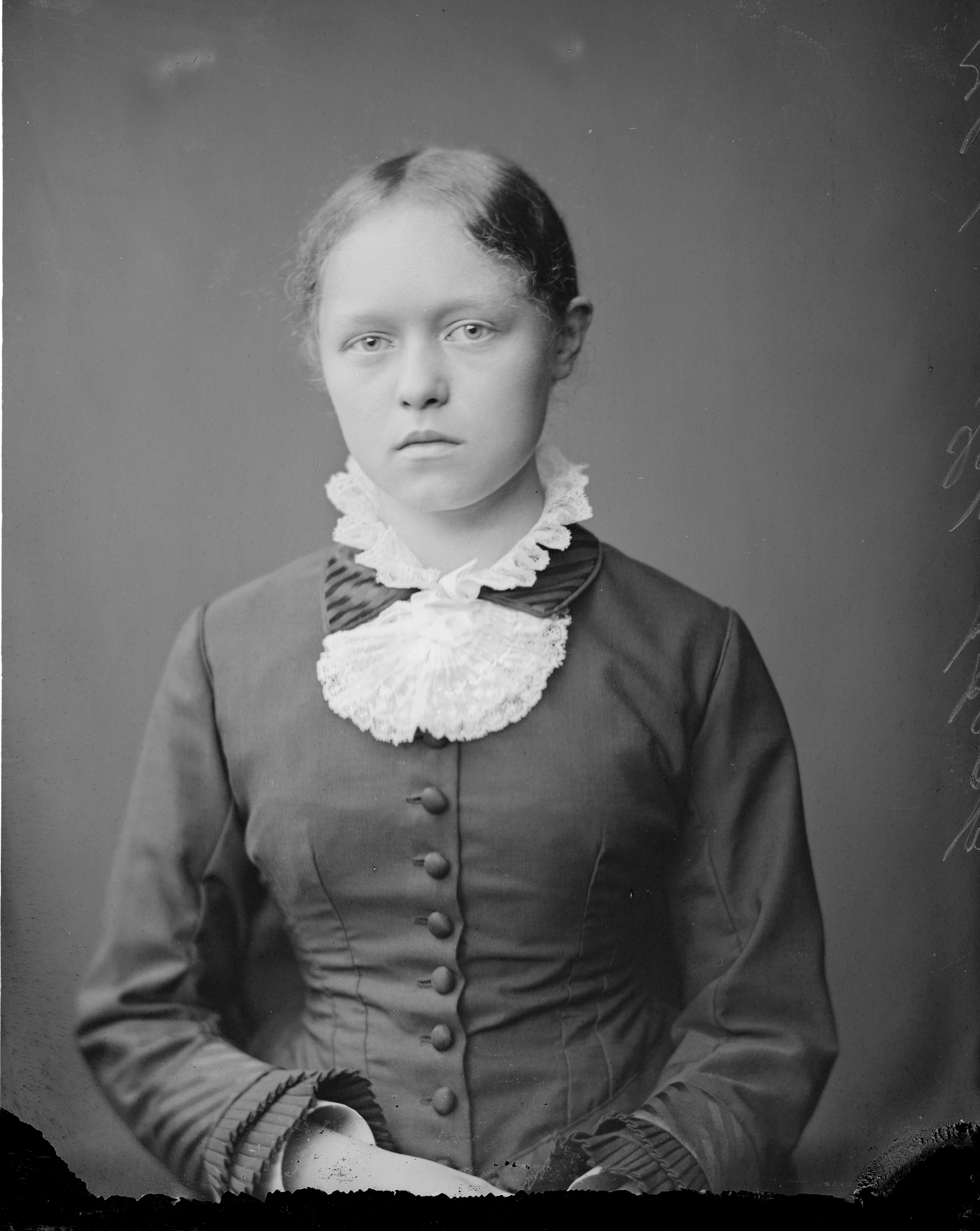 Photograph of the Finnish painter Helene Schjerfbeck.